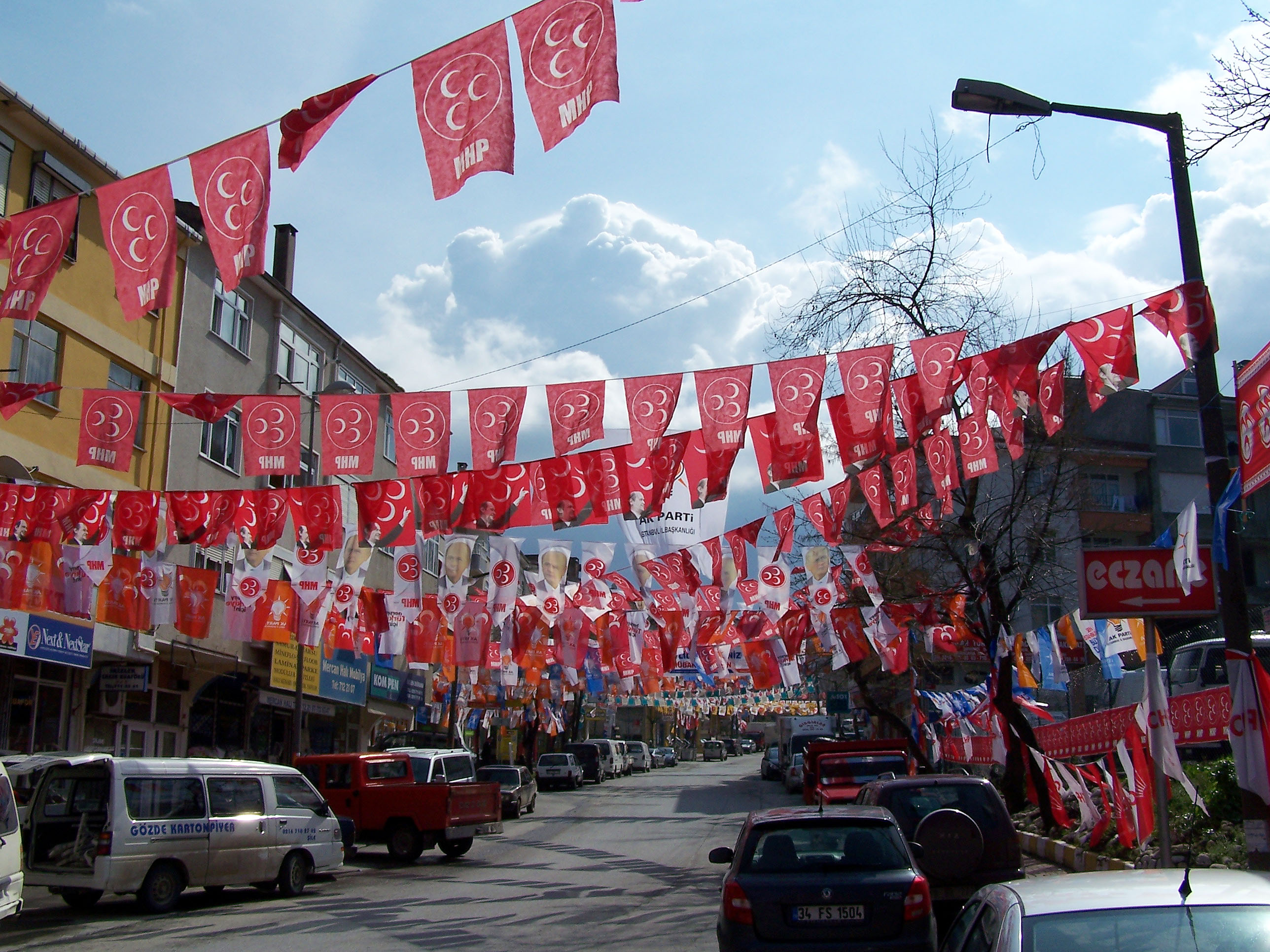 Flags of political parties before the Turkish municipal elections in Şile, Turkey. The most visible ones are MHP (Milliyetçi Hareket Partisi, Nationalist Action Party) flags.